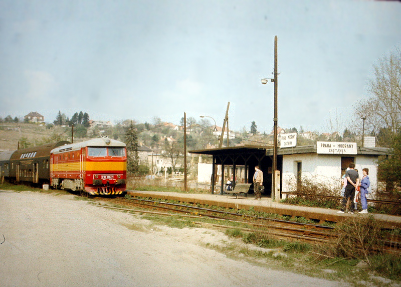 Former train stop Praha Modřany